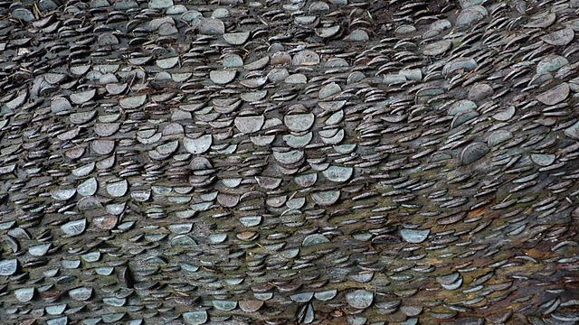 Wish tree coins at Aira Force, Ullswater, Cumbria, England.